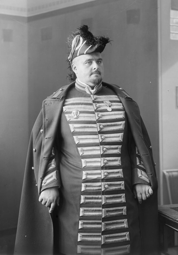 Alexei Khvostov